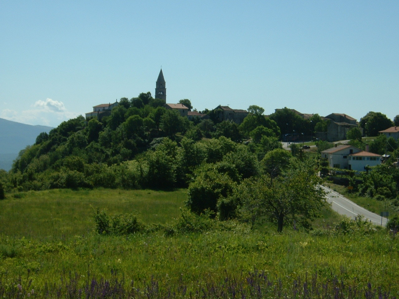 Gvozden Rovina